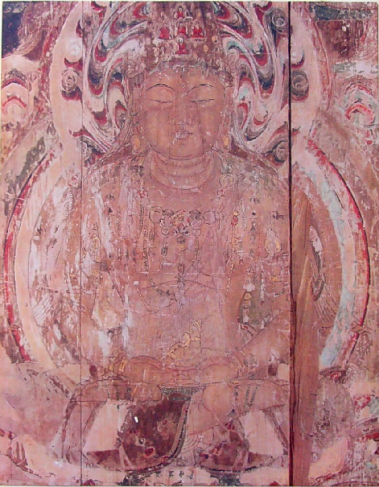 Wall Paintong in Five Stories Pagoda, Dainichi Nyorai(Maha Viorocana) , 53cm height, 41cm wide, Colour on Wood Panel, Daigoji Temple, Kyoto, Japan, ACE951